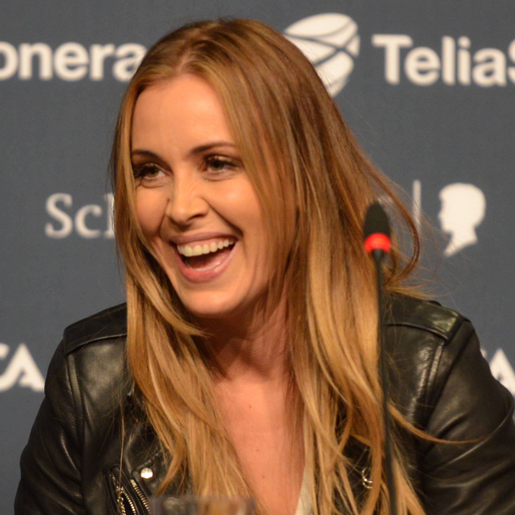 Anouk at a press conference during the Eurovision Song Contest 2013 in Malmö. (Help translate this text)